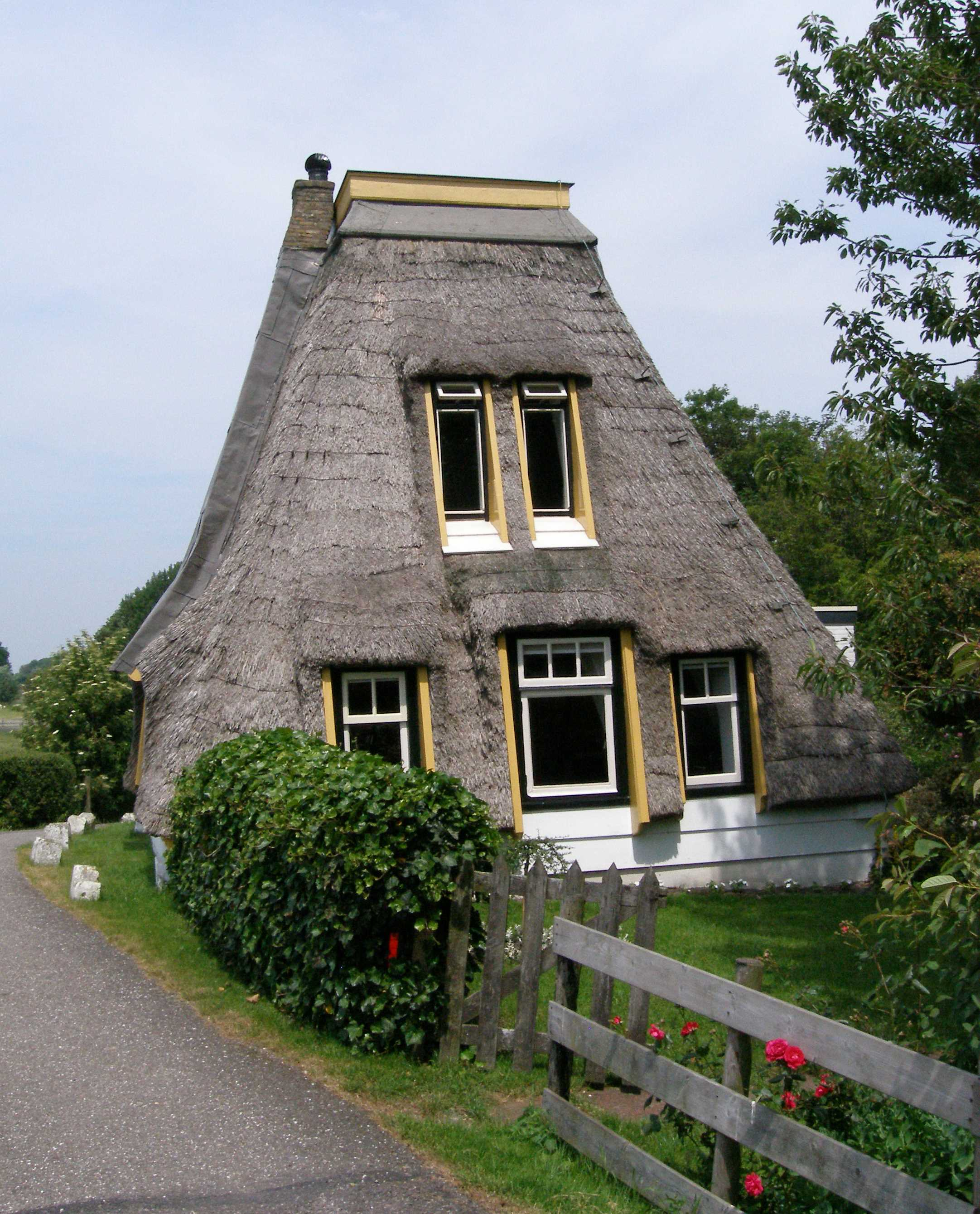 Former windmill De Oorsprong (The Origin) marks the origin of the river Rotte, near Moerkapelle.